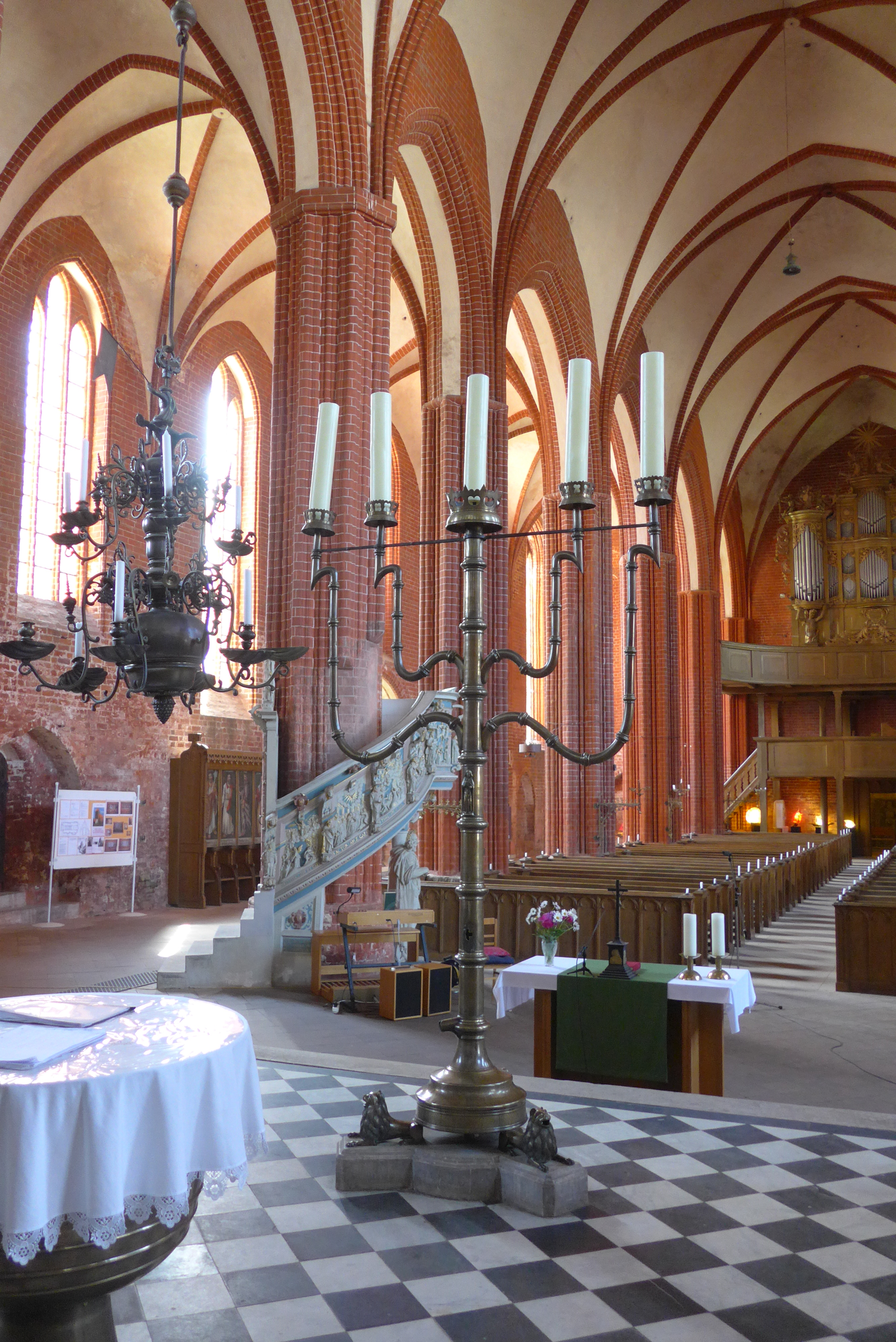 Werben (Elbe), St. Johannis, Blick vom Chor in das Mittelschiff mit fünfarmigem Bronzeleuchter, 1488; Kronleuchter, 1676; Kanzel, 1602.